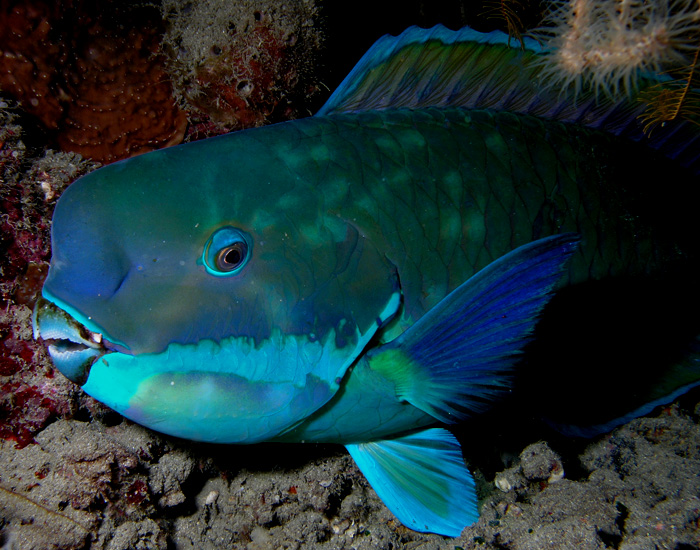 Parrotfish (Chlorurus microrhinos) from East Timor